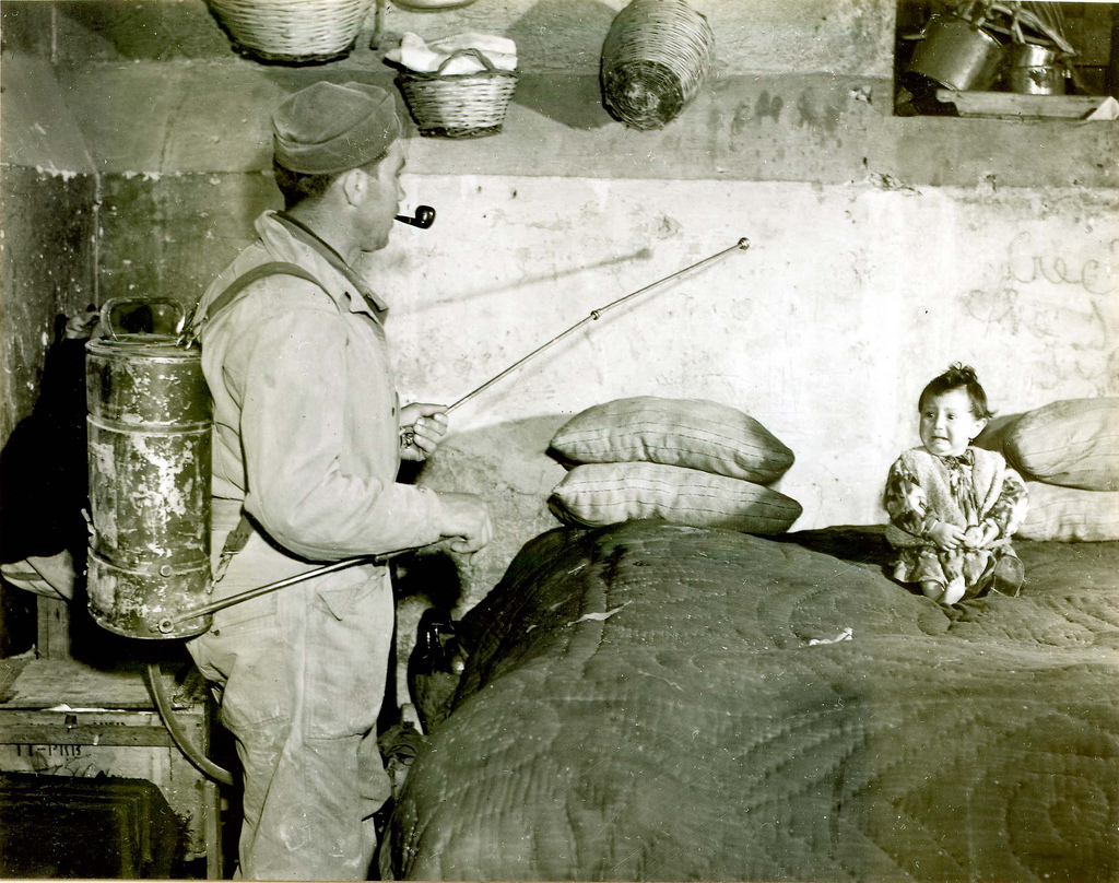 Spraying interior of Italian houses with 10% DDT and kerosene for malaria control. 32nd Field Hospital, Unit B Installation. 02/26/1945. World War 2.